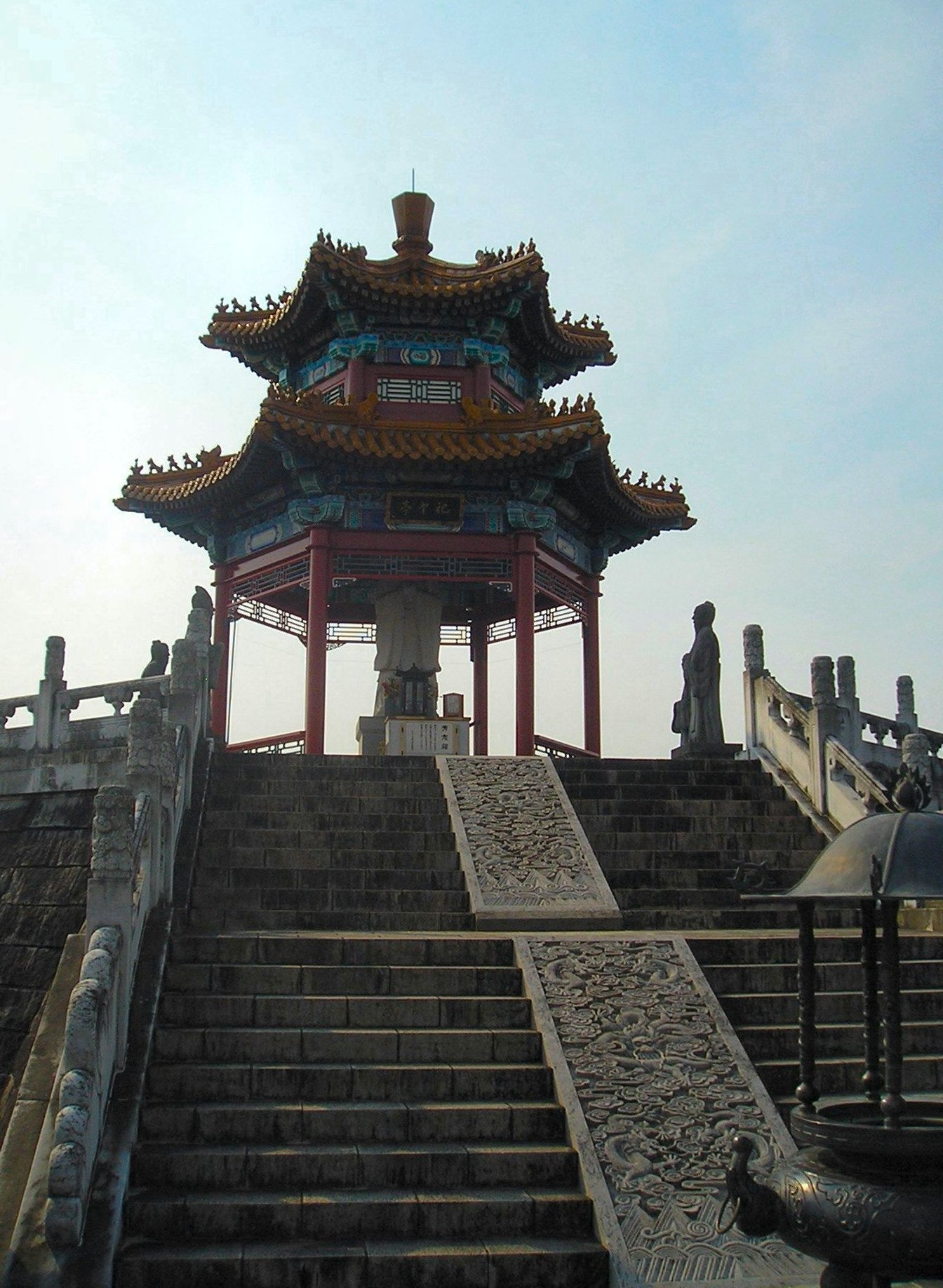 Koshi (Confucius) Park, Kikuchi City, Kumamoto